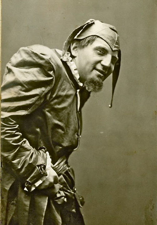 Michael Shuisky (1883–1953), Russian baritone, in the title role of Verdi's opera Rigoletto